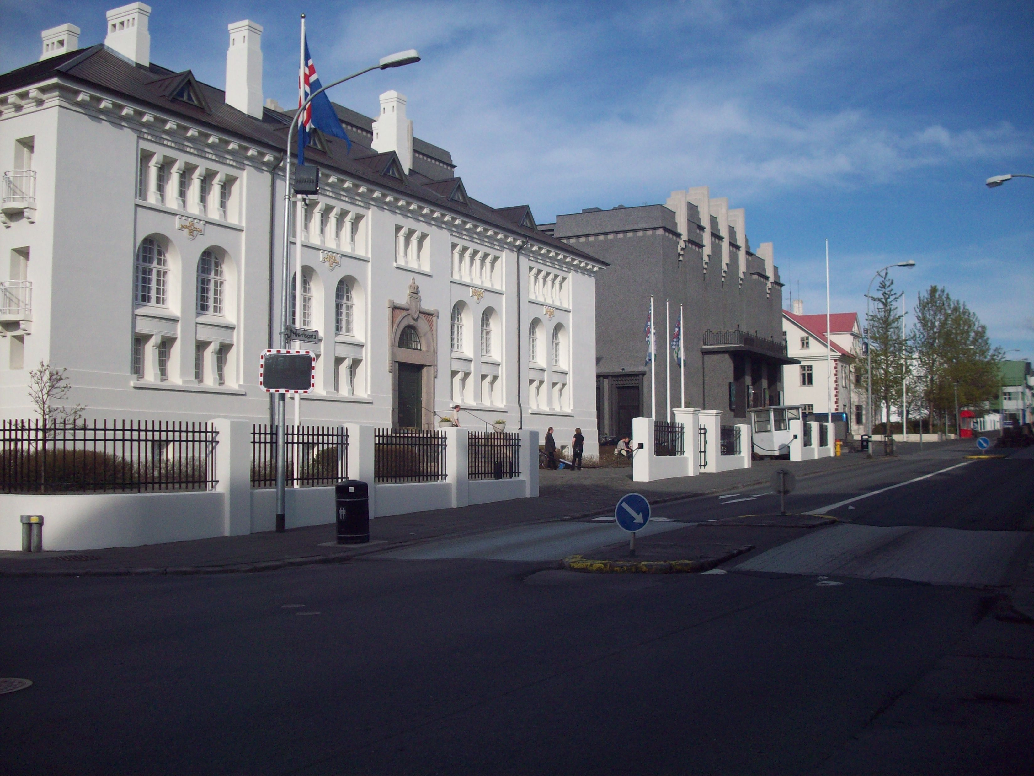 Hverfisgata a street in Reykjavík.